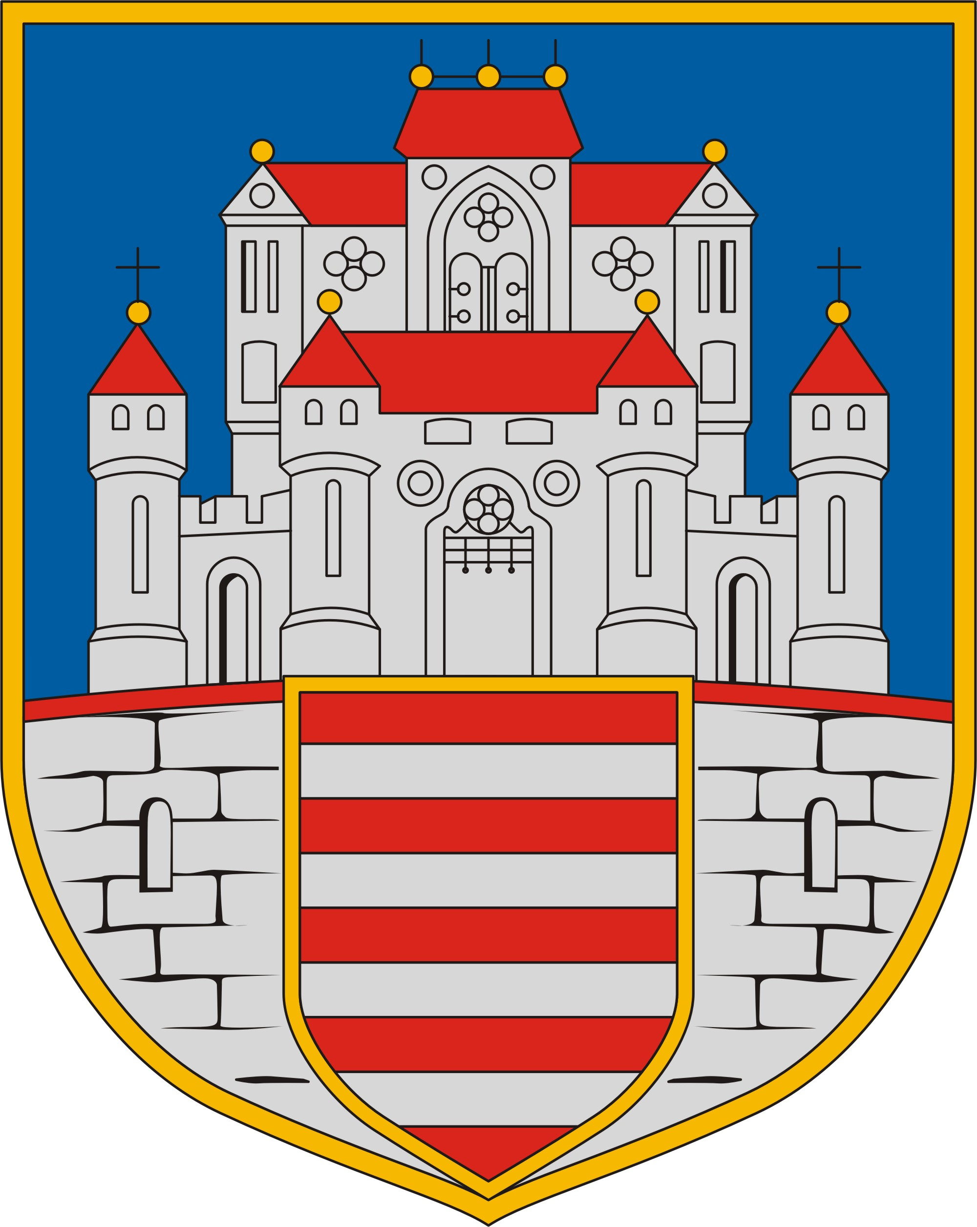 The Seal of Esztergom, Hungary